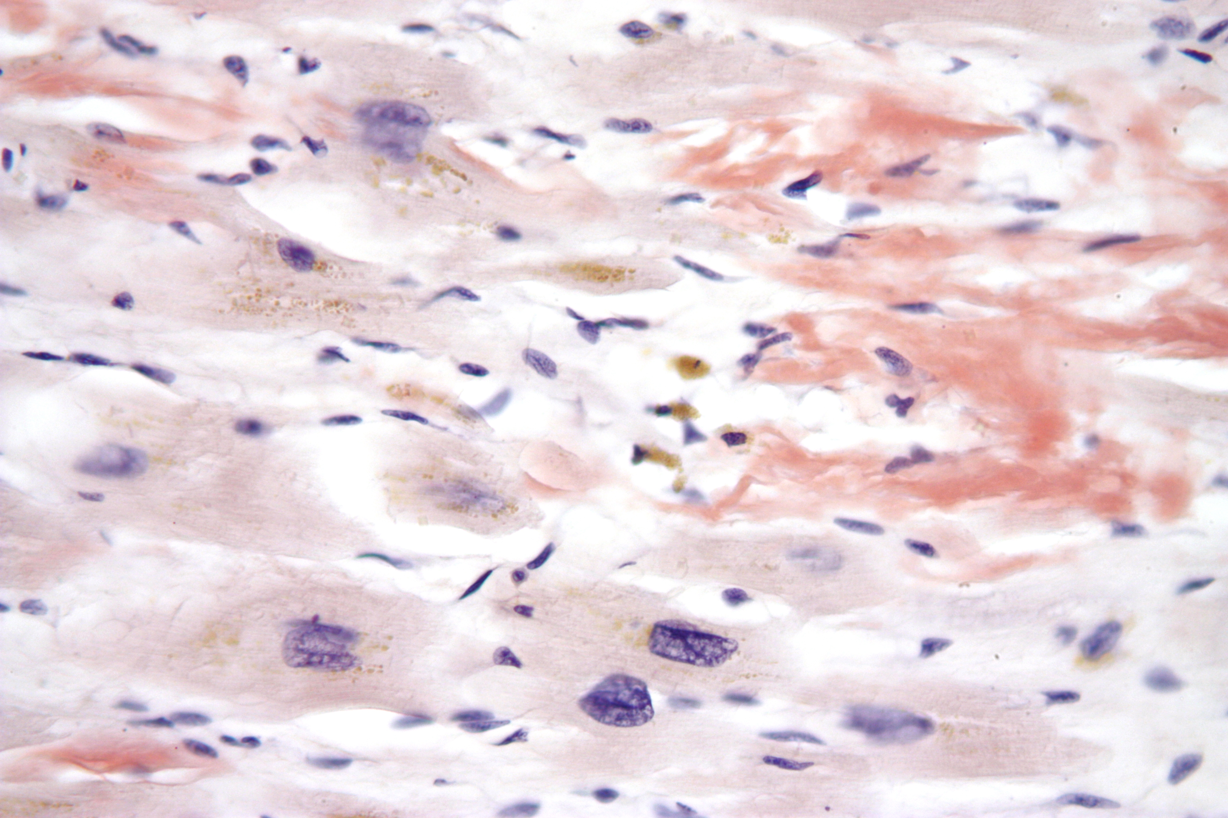 High magnification micrograph of senile cardiac amyloidosis. Congo red stain. Autopsy specimen. The micrograph shows amyloid (extracellular washed-out red material) and abundant lipofuscin (yellow granular material). Related images Intermed. mag. (H&E). High mag. (H&E). Very high mag. (H&E). Very high mag. (Movat's stain). High mag. (congo red). Very high mag. (congo red).